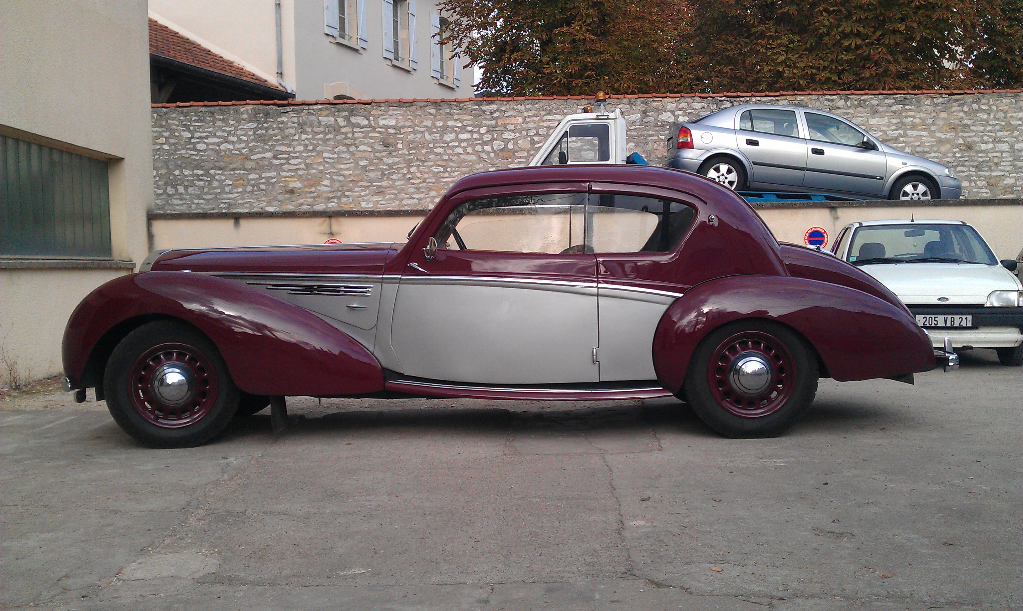 1947 Delage D6-70 by Letourneur et Marchand.